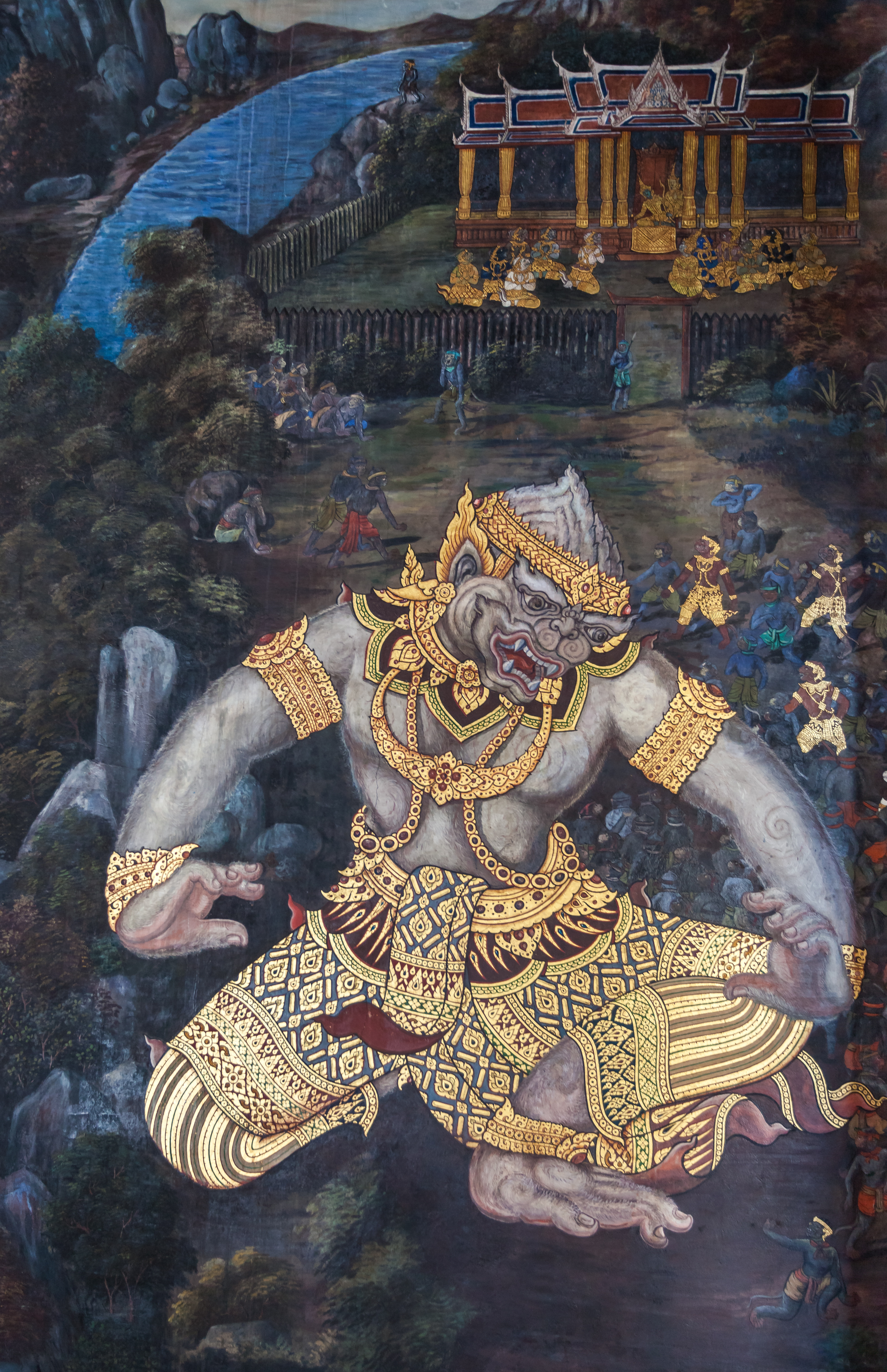 Gradn Palace, Bangkok, Thailand